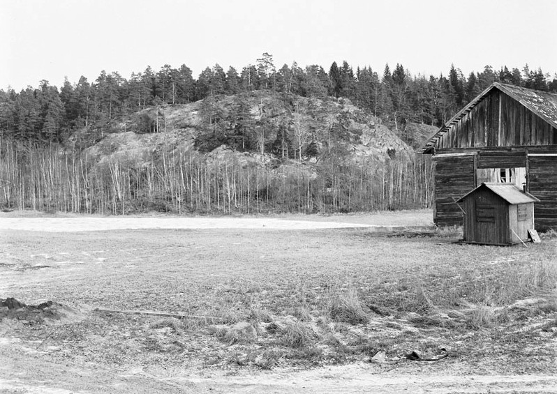 Alängen/Ågesta. Platsen där det nya atomkraftverket ska uppföras. 1957-1957FOTOGRAF: Blomquist, Åke (Fotograf på Svenska Dagbladet). Svenska Dagbladet BILDNUMMER: SvD 29486Stadsmuseet i Stockholm